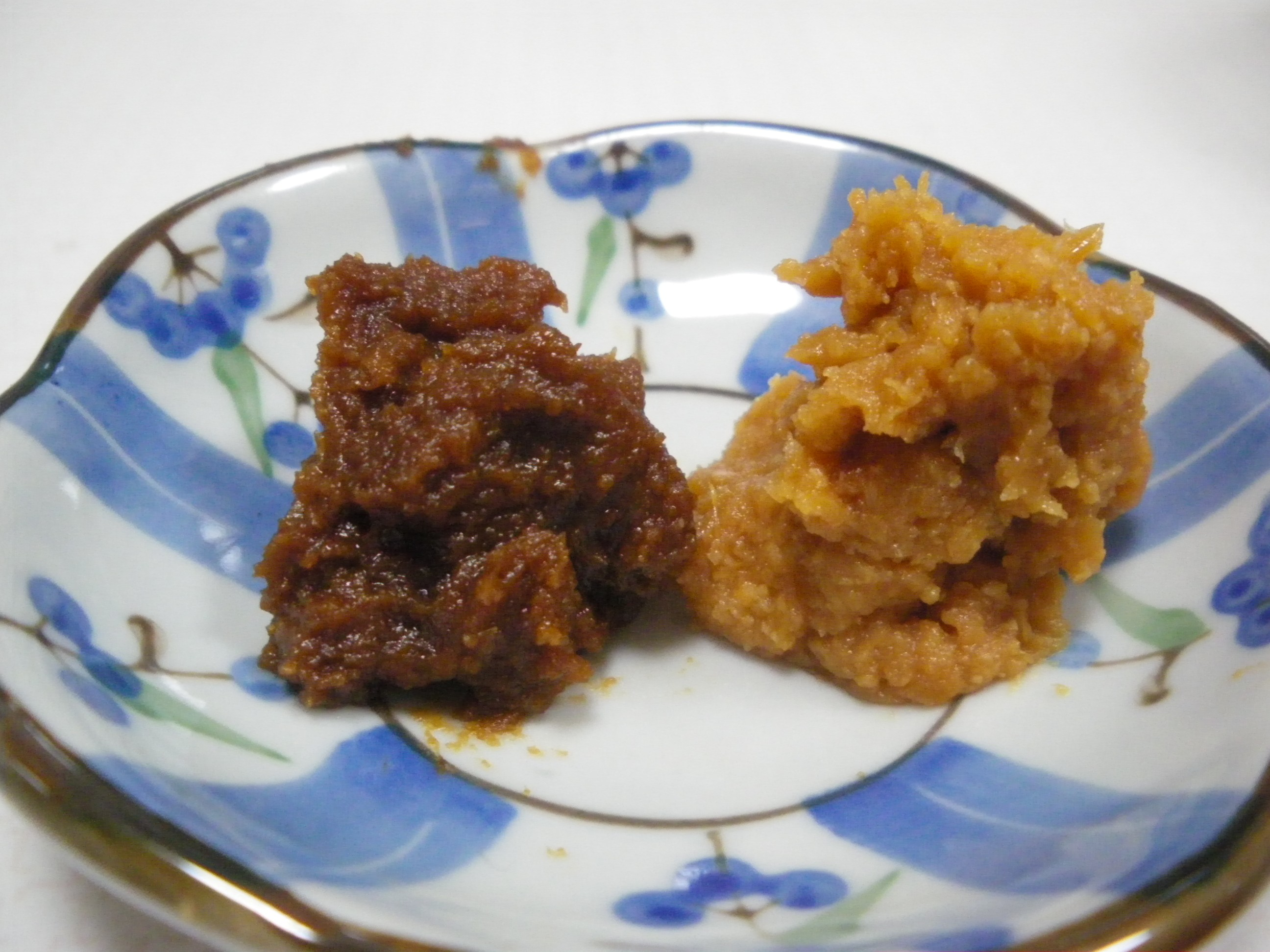 A photo of Edoama miso(left) and Shinsyu miso(right). (Edoama miso is traditional miso in Tokyo, Shinsyu miso is traditional miso in Nagano.But now Shinsyu miso is most popular in Japan.)